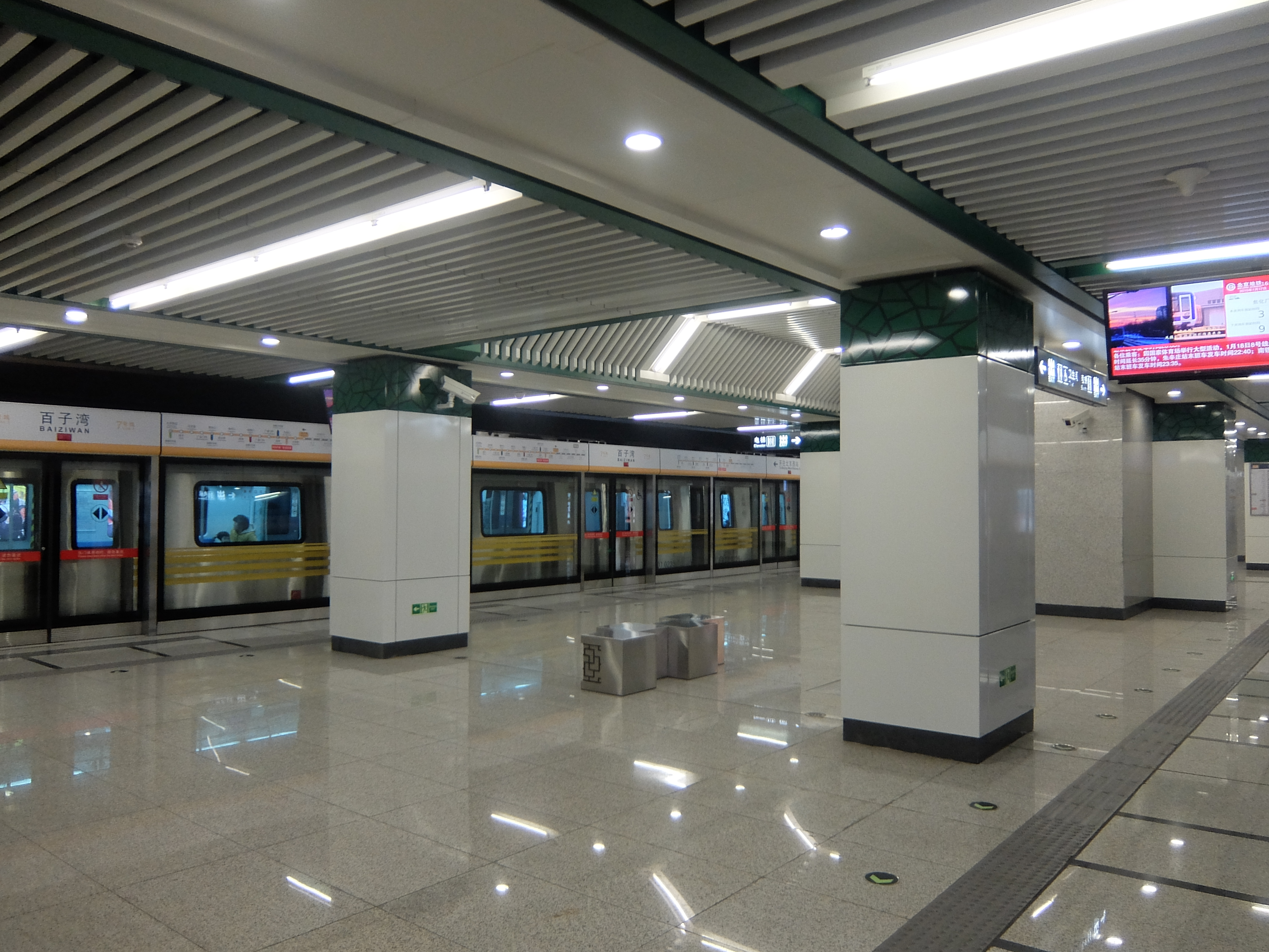 Platform of Baiziwan Station, Line 7 of the Beijing Subway.